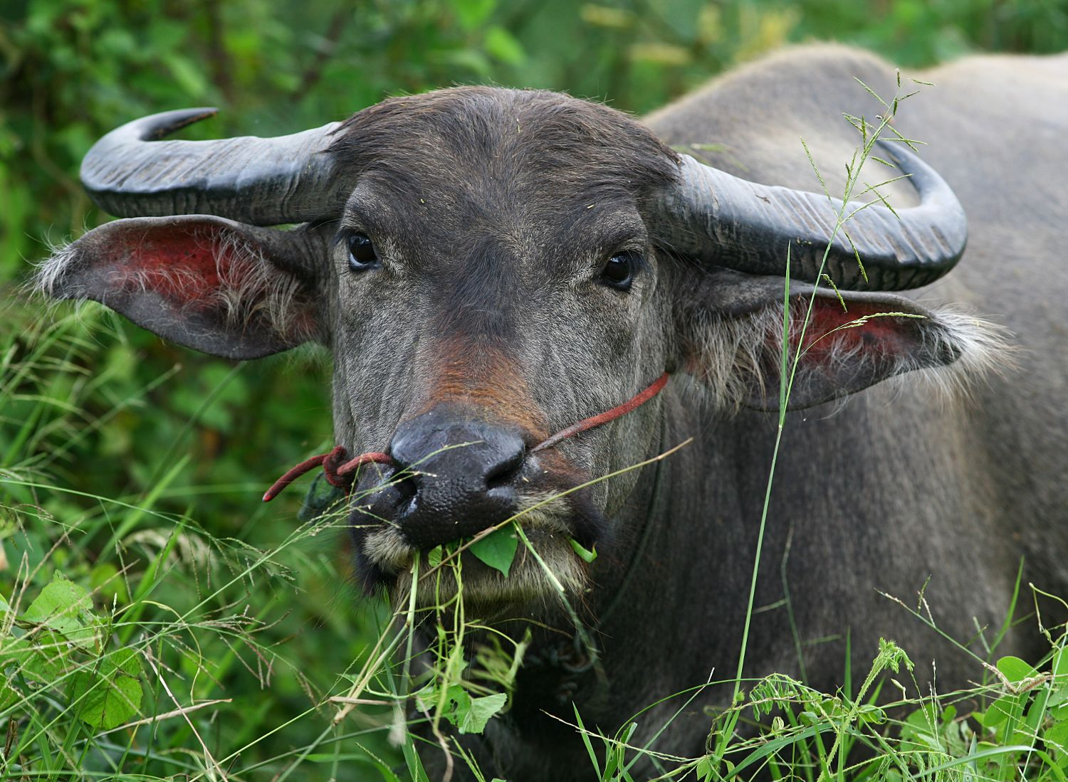 water buffalo grazing at the side of the road, by Lake Phayao